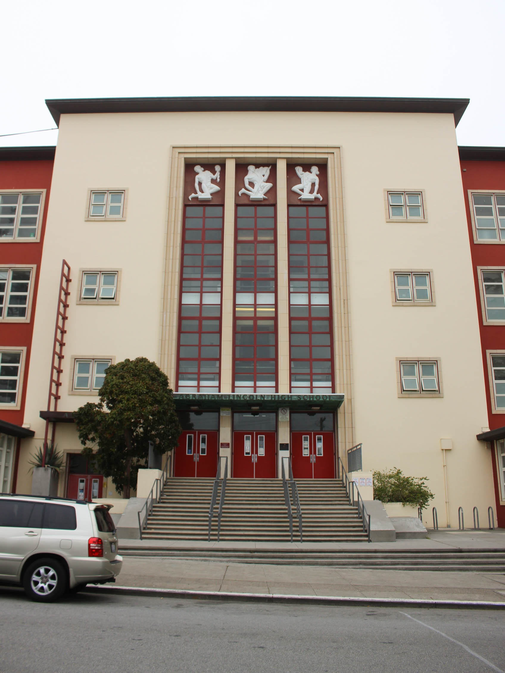 The main entrance of Abraham Lincoln High School (ALHS), Sunset District, San Francisco, California, USA